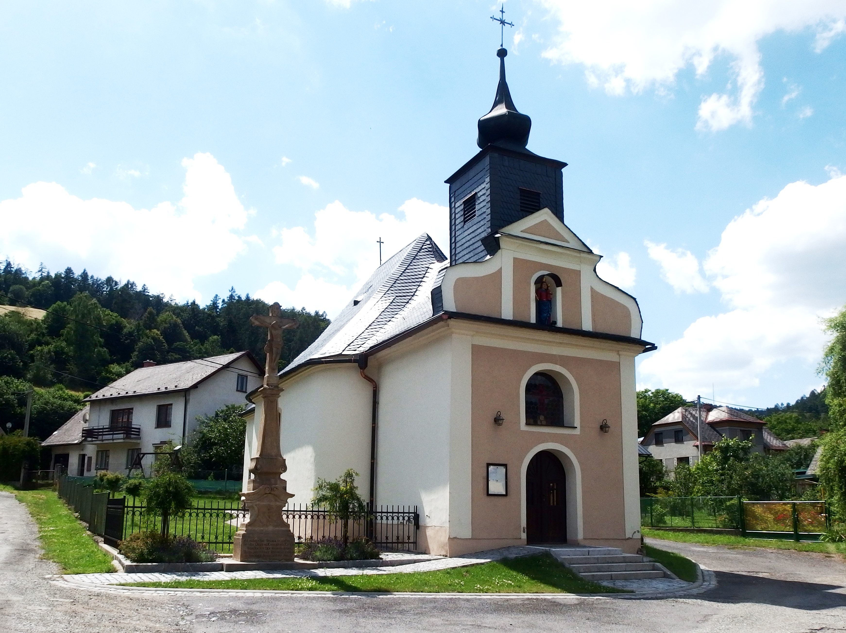 Bušín, Šumperk District, Czechia.